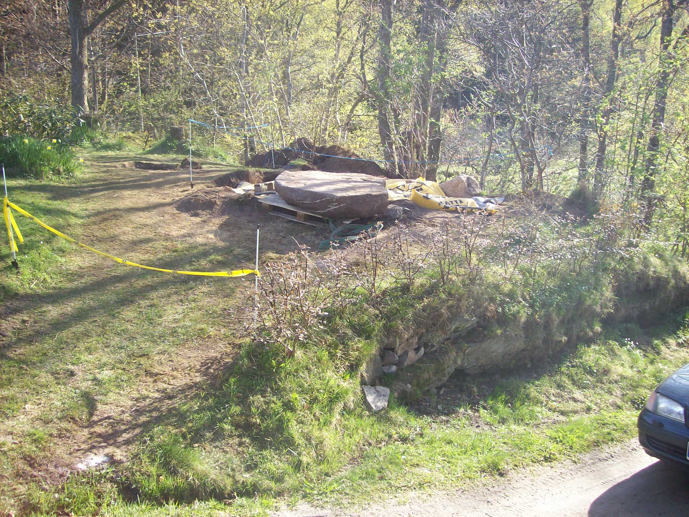 Hogganvik place of runestone